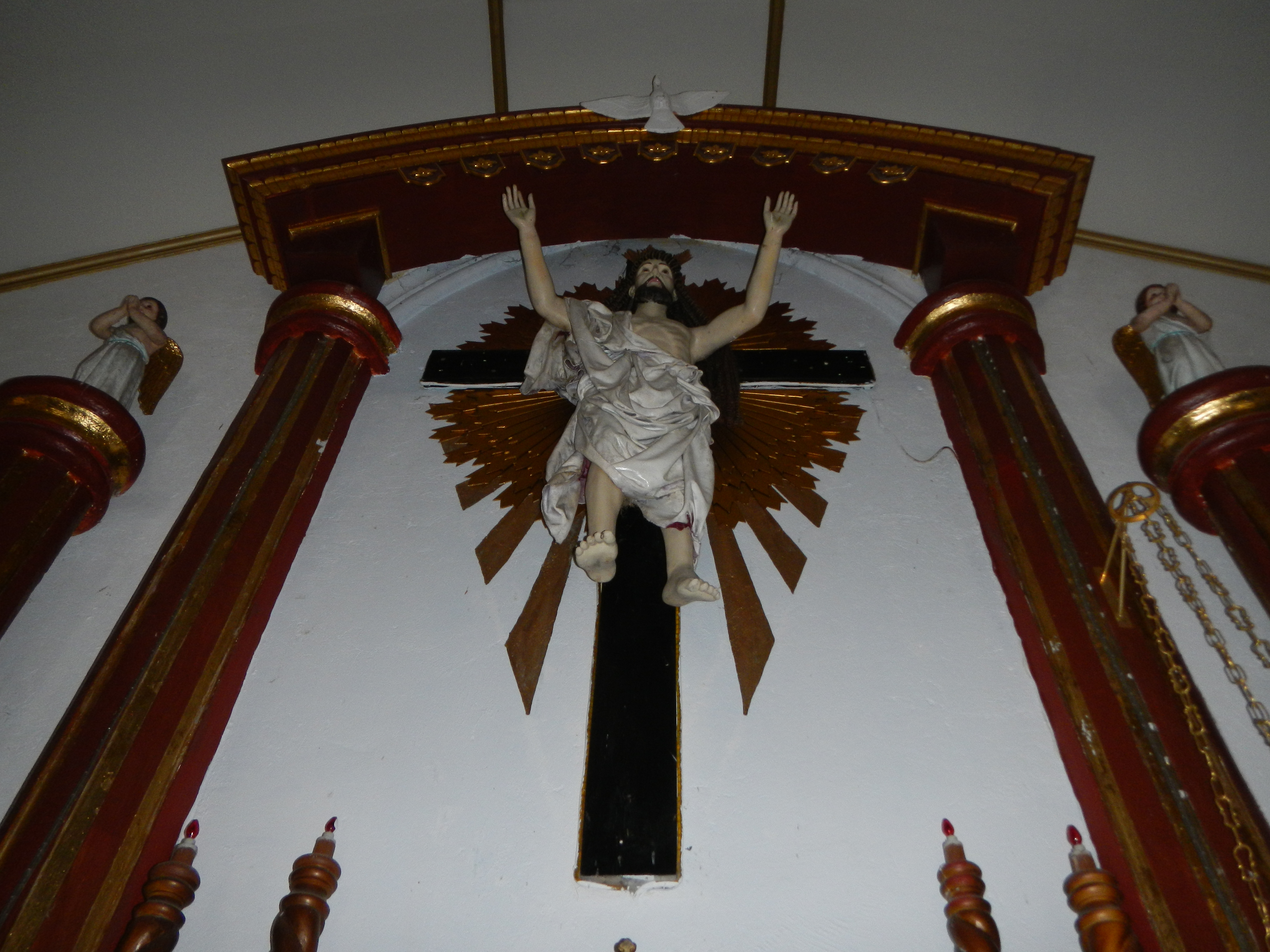 Original, raw/unedited and rarest photos of San Jose, Tarlac's main Church is the -- 1990 Immaculate Conception Parish Church of San Jose (F-1990): Mababanaba, San Jose 2700 Tarlac City, Philippines -Parish Priest: SRC Fathers[1] Vicariate of San Sebastian Vicar Forane: Father Rey Nedi S. Cardinoza[2] [3] [4] [5] It belongs to the Roman Catholic Diocese of Tarlac[6] --------San Jose, Tarlac [7] is a third-class municipality in the province of Tarlac,[8] Philippines. According to the 2010 census, it has a population of 33,960 people. It was created into a municipality pursuant to RA 6842; ratified on April 21, 1990; taken from the municipality of Tarlac City. San Jose is politically subdivided into 13 barangays. [9] Land Area: 397.30 km² ZIP Code: 2318 Coordinates: 15°25'46"N 120°21'15"E [10] [11] This place is situated in Tarlac, Region 3, Philippines, its geographical coordinates are 15° 29' 0" North, 120° 38' 0" East and its original name (with diacritics) is San Jose: Geographical location: Tarlac, Region 3, Philippines, Asia.[12] Monasterio de Tarlac - ---------[N.B. May 27, Monday, 2013 Photography of Rosario, San Jose, Tarlac [13] : 30% cloudy and 70% sunny weather using my Nikon AW 100 waterproof shockproof camera. From Bulacan at 10:05 a.m., I took photo at 12:52 pm of Tarlac City and reached TRP (Tarlac Recreational Park) of San Juan de Valdez, San Jose, Tarlac at 2:29 p.m. and finished photography of the town's landmarks at 4:18 pm then took photos of Tarlac Cathedral and Cory Aquino Monument at 5:31 p.m., and arrived at Bulacan at 9:10 pm after 4+ hours of travel by bus, and started uploading via slow internet at 9:40 pm - I hereby certify that these raw, original and unedited photos are exclusive for Commons and Wikipedia never uploaded in any Internet or any site, and for the public domain without any condition.]